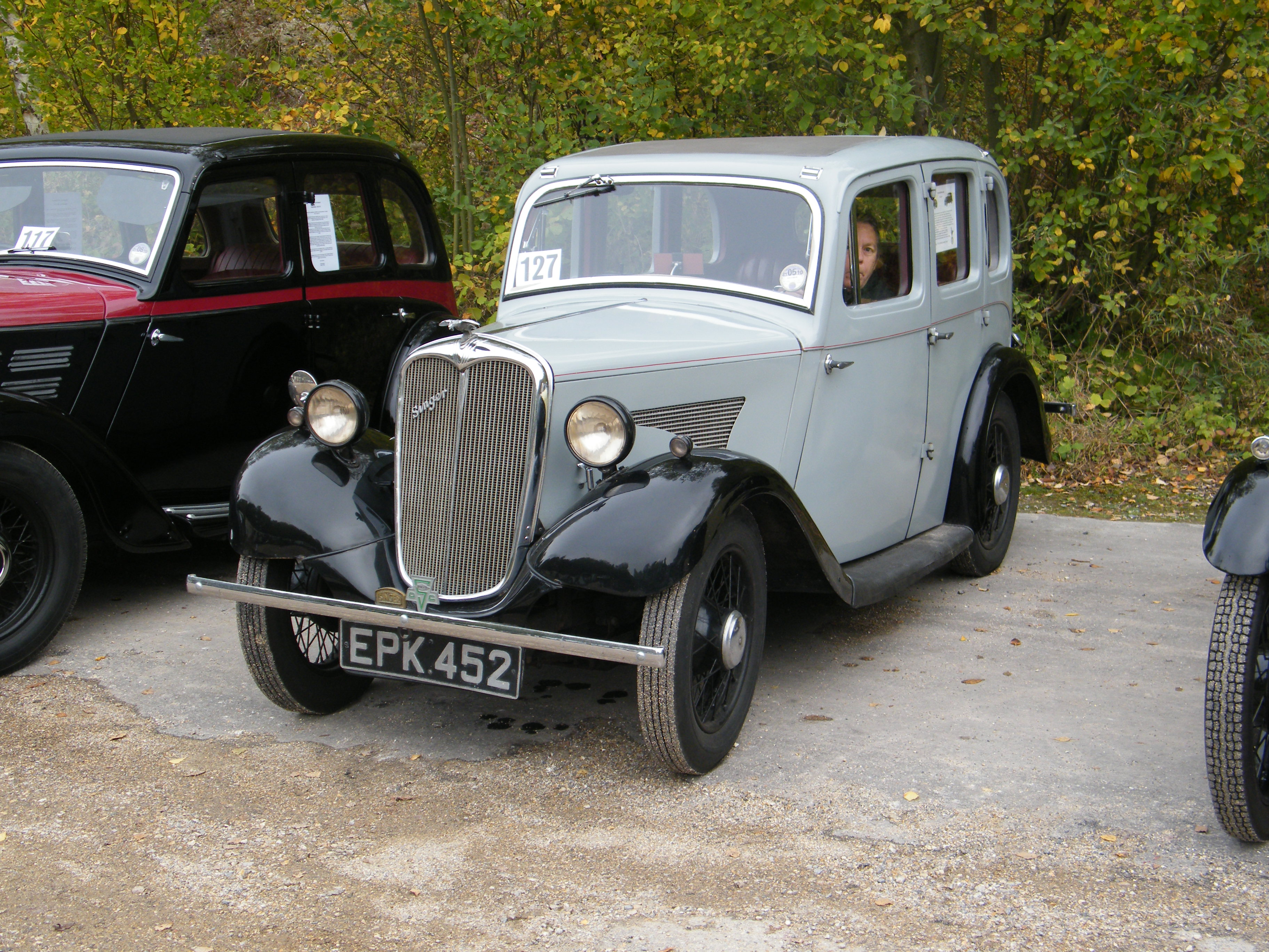 1936 Singer Bantam Saloon, 2009 - Amberley Autumn Vintage Vehicles (DVLA) 972cc, manufactured 1936